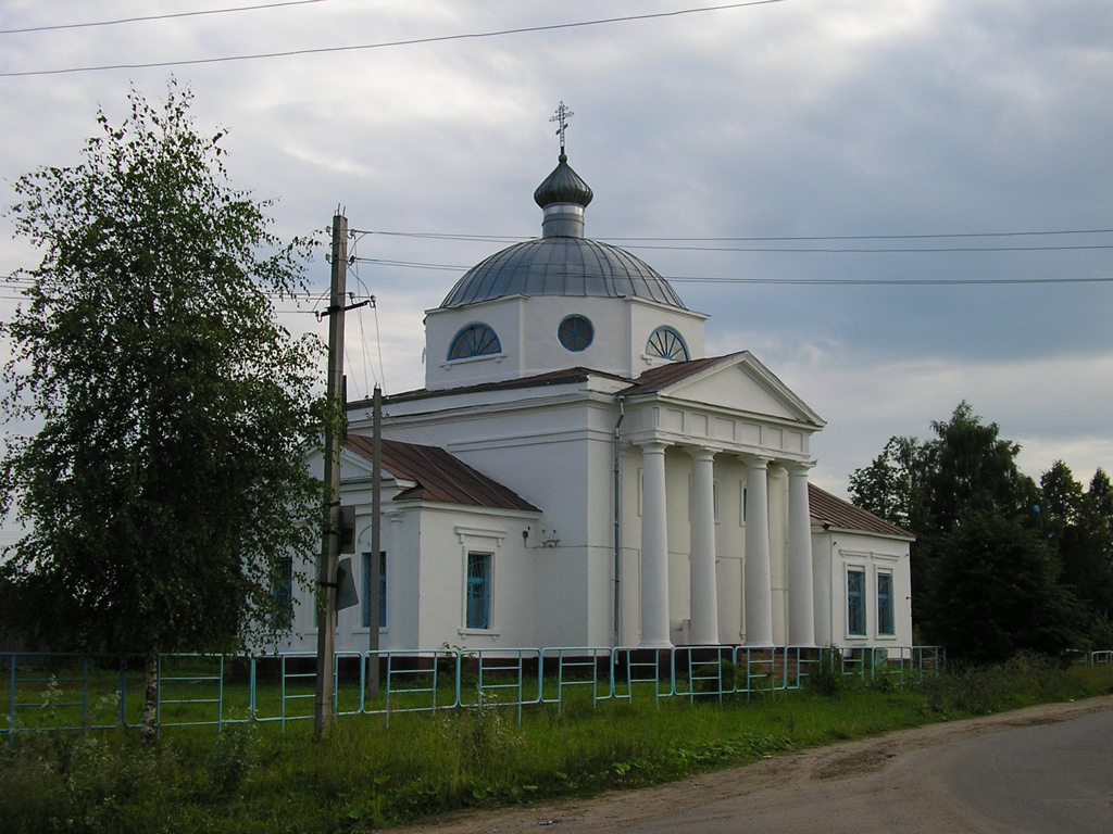 Vseh Svjatih church, Maksatikha